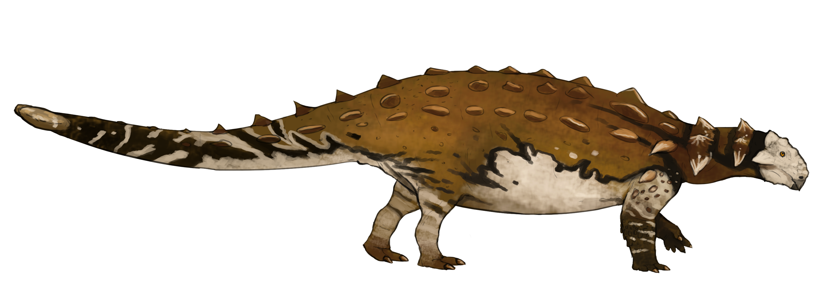 Illustration of the ankylosaur Talarurus. Drawn by Jack Wood for A-Dinosaur-A-Day.